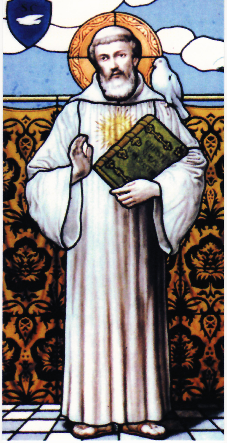 Photograph of the Saint Columbanus Window in the crypt at the Abbey of Bobbio